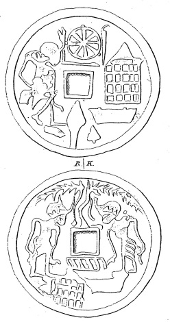 An illustration of a numismatic charm from the Majapahit Empire.